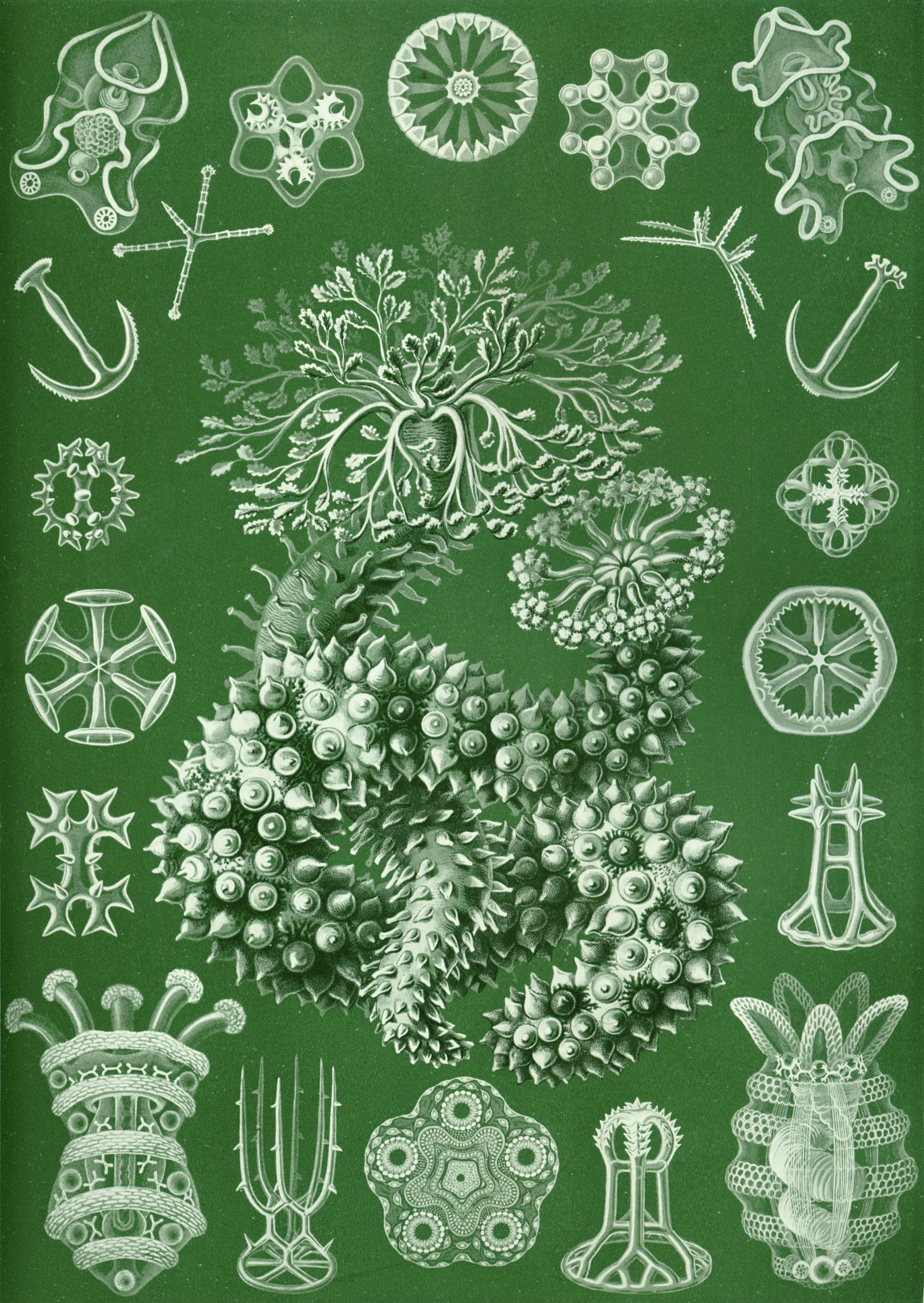 See here for index to image numbers Phyllophorus urna (Grube) = Phyllophorus urna Grube, 1840, adult Sporadipus botellus (Selenka) = Holothuria impatiens (Forskål, 1775), adult Synapta digitata = Labidoplax digitata (Montagu, 1815), young auriculata larva Synapta digitata = Labidoplax digitata (Montagu, 1815), older auriculata larva Synapta digitata = Labidoplax digitata (Montagu, 1815), young doliolaria larva Synapta digitata = Labidoplax digitata (Montagu, 1815), older doliolaria larva Synapta digitata = Labidoplax digitata (Montagu, 1815), young doliolaria larva in cross-section Stichopus Murrayi (Theel) = Mesothuria murrayi (Théel, 1886), spicule Myriotrochus Rinkii (Steenstrup) = Myriotrochus rinkii Steenstrup, 1851, spicule Caudina coriacea (Hutton) = Paracaudina chilensis (Müller, 1850), spicule Paelopatides aspera (Theel) = Galatheathuria aspera (Théel, 1886), spicule Elpinia rigida (Theel) = Elpidia rigida Théel, 1882, spicule Synapta aculeata (Theel) = Protankyra aculeata (Théel, 1886)?, spicule Synapta glabra (Semper) = Opheodesoma glabra (Semper, 1868), spicule Colochirus inornatus (Marenzeller) = Plesiocolochirus inornatus (von Marenzeller, 1881), spicule Stichopus Moebii (Semper) = Isostichopus badionotus (Selenka, 1867), spicule Chirodota venusta (Semon) = Trochodota venusta (Semon, 1887), spicule Chirodota venusta (Semon) = Trochodota venusta (Semon, 1887), spicule Cucumaria crucifera (Semper) = Trachasina crucifera (Semper, 1869), spicule Thelenota atra (Jaeger) = Holothuria atra Jaeger, 1833, spicule Arbacia pustulosa (Semon) = ?, spicule Stichopus Moebii (Semper) = Isostichopus badionotus (Selenka, 1867), spicule